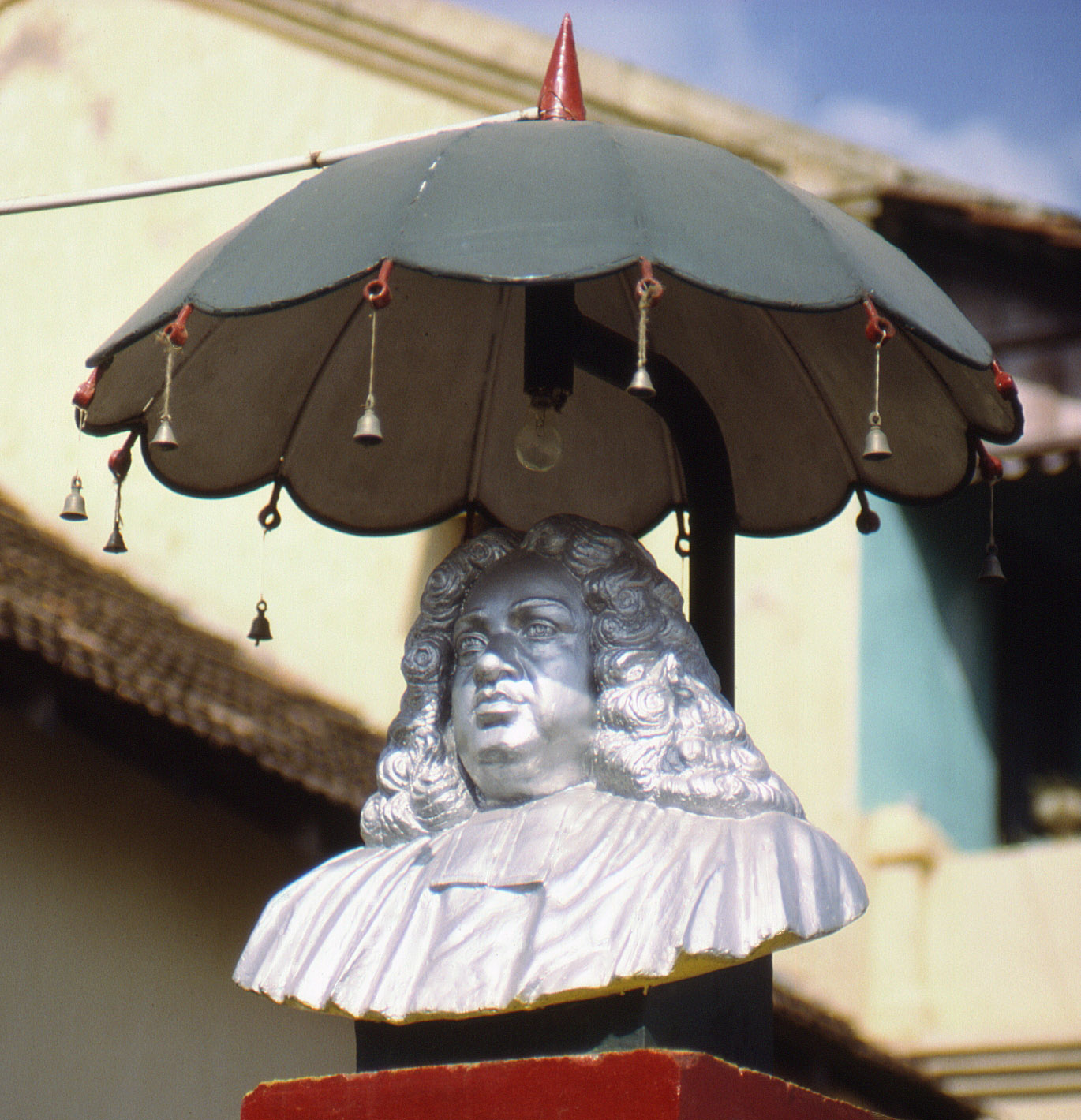 Bartholomäus Ziegenbalg monument in Tranquebar, Tamil Nadu, South India. The monument and its location have been changed in the year of 2006. The bust of Ziegenbalg was gilded and treated without the screen on this new location: The statue stands in the courtyard in front of the entrance to the "TELC Higher Secondary School", which bears the name since 20 October 2012: "TELC Bishop Johnson Memorial Higher Secondary School ". The school building was rebuilt 1998th